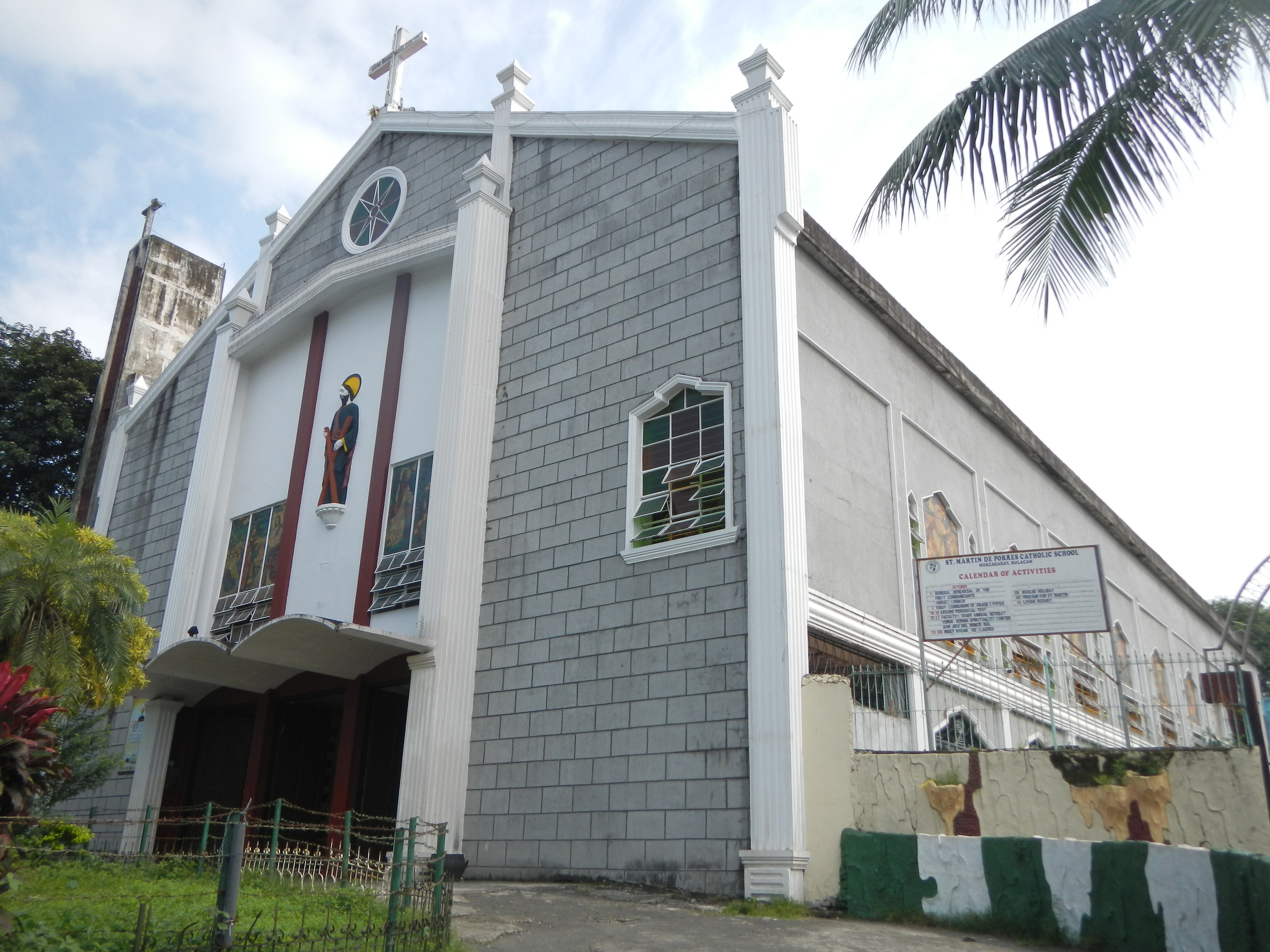 Norzagaray, Bulacan[1] St. Andrew, the Apostle Church